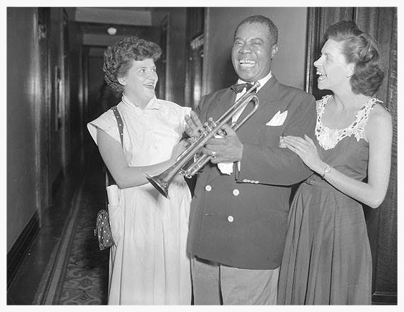 Louis Armstrong, "Satchmo", at Standish Hall 1951 - popular nightspot for Ottawans. Shows Armstrong standing holding his trumpet between two women, all smiling. Gatineau, QC